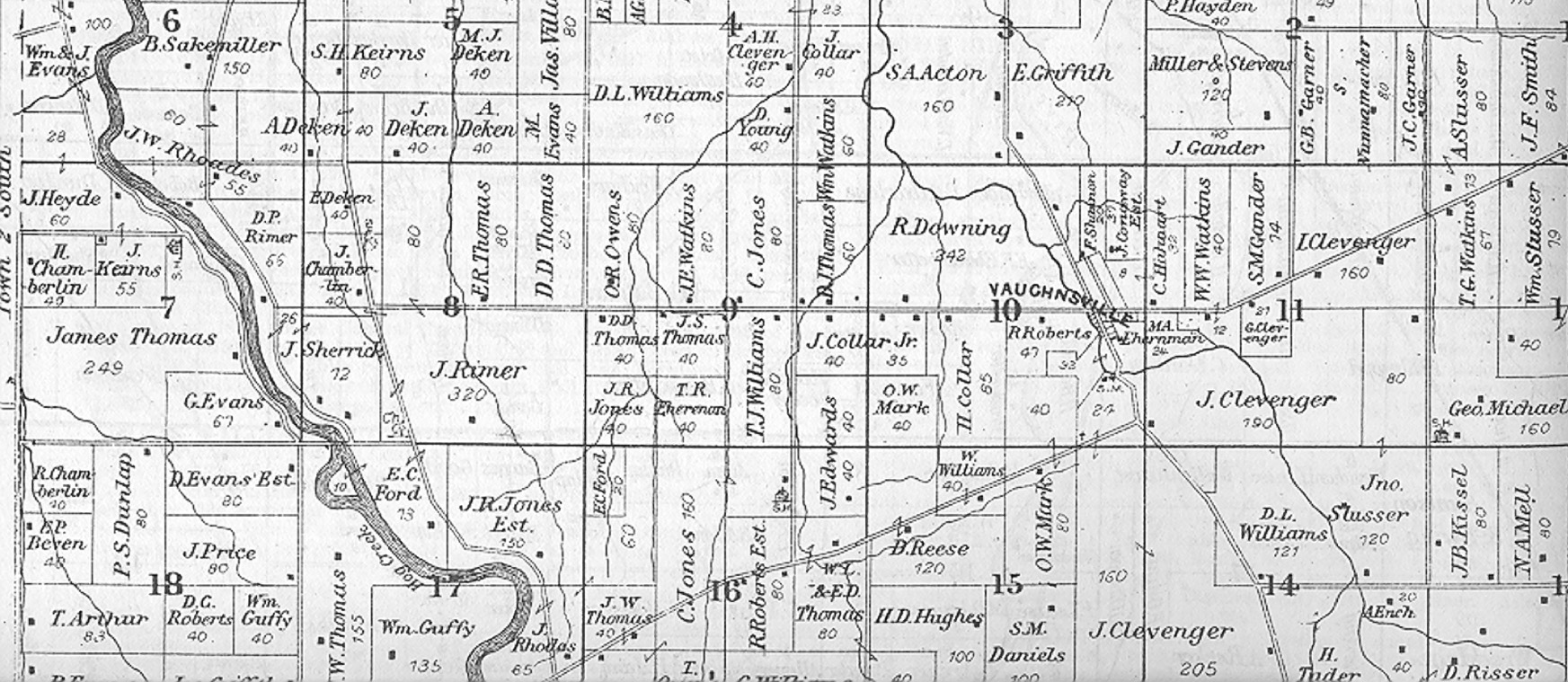 Vaughnsville as seen on an 1880 Map of Sugar Creek Township